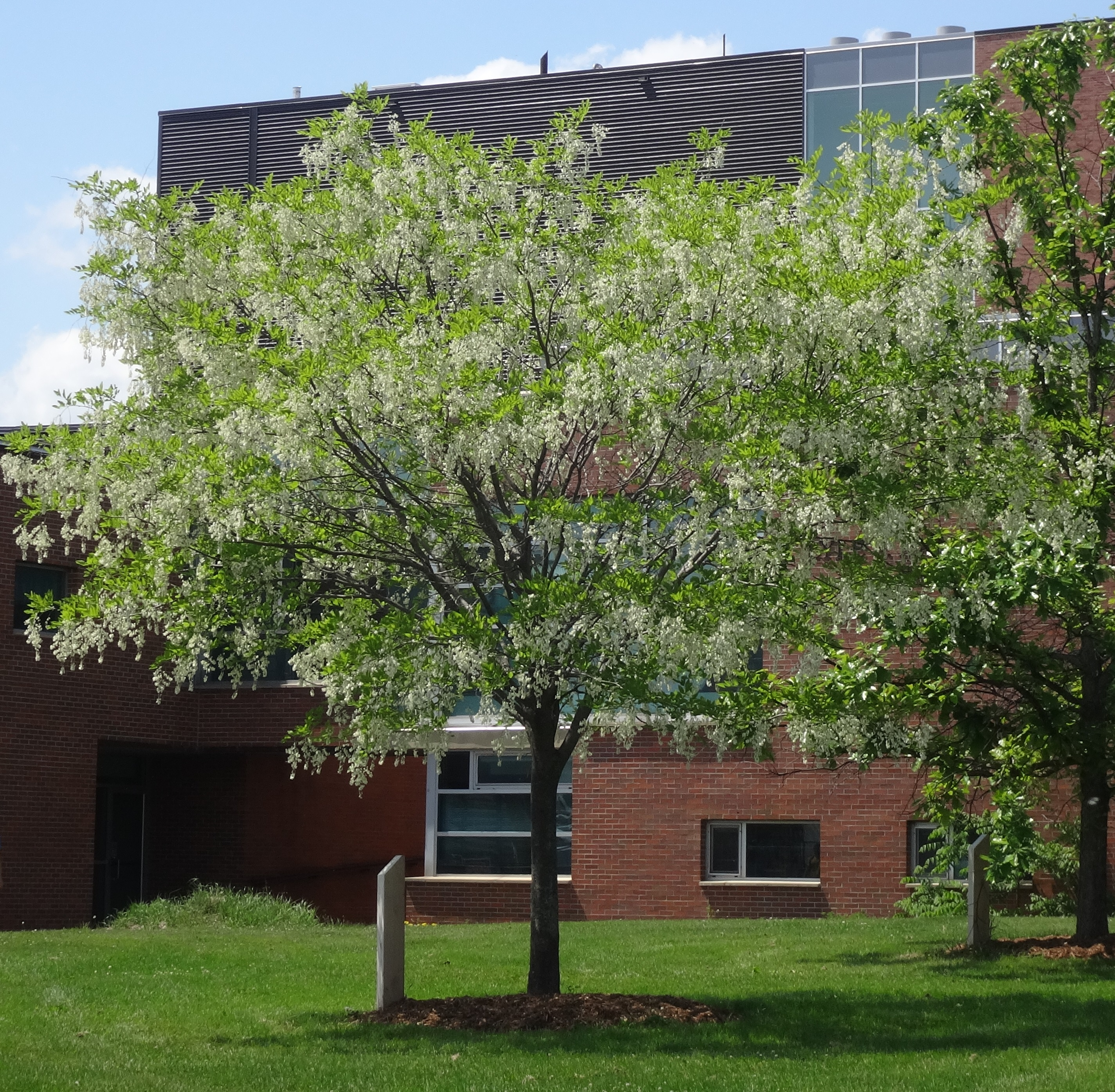 Young Yellowwood tree at the University of Waterloo, Waterloo, Ontario. Lots of White flower racemes hanging